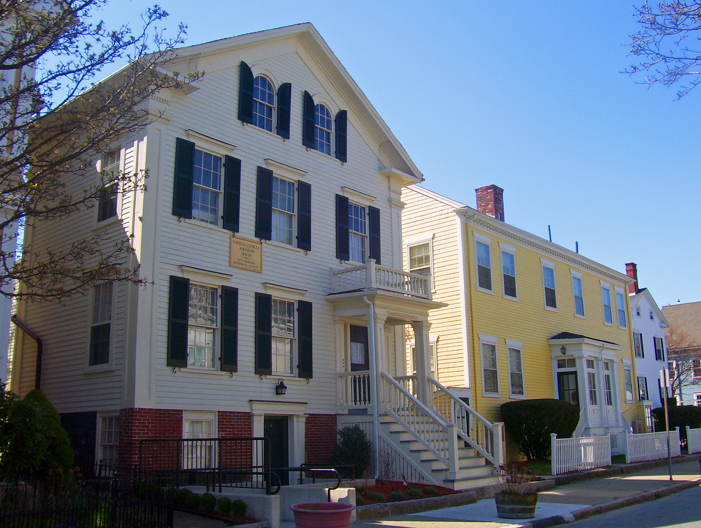 Nathan and Mary (Polly) Johnson properties, where Frederick Douglass lived after escaping slavery.